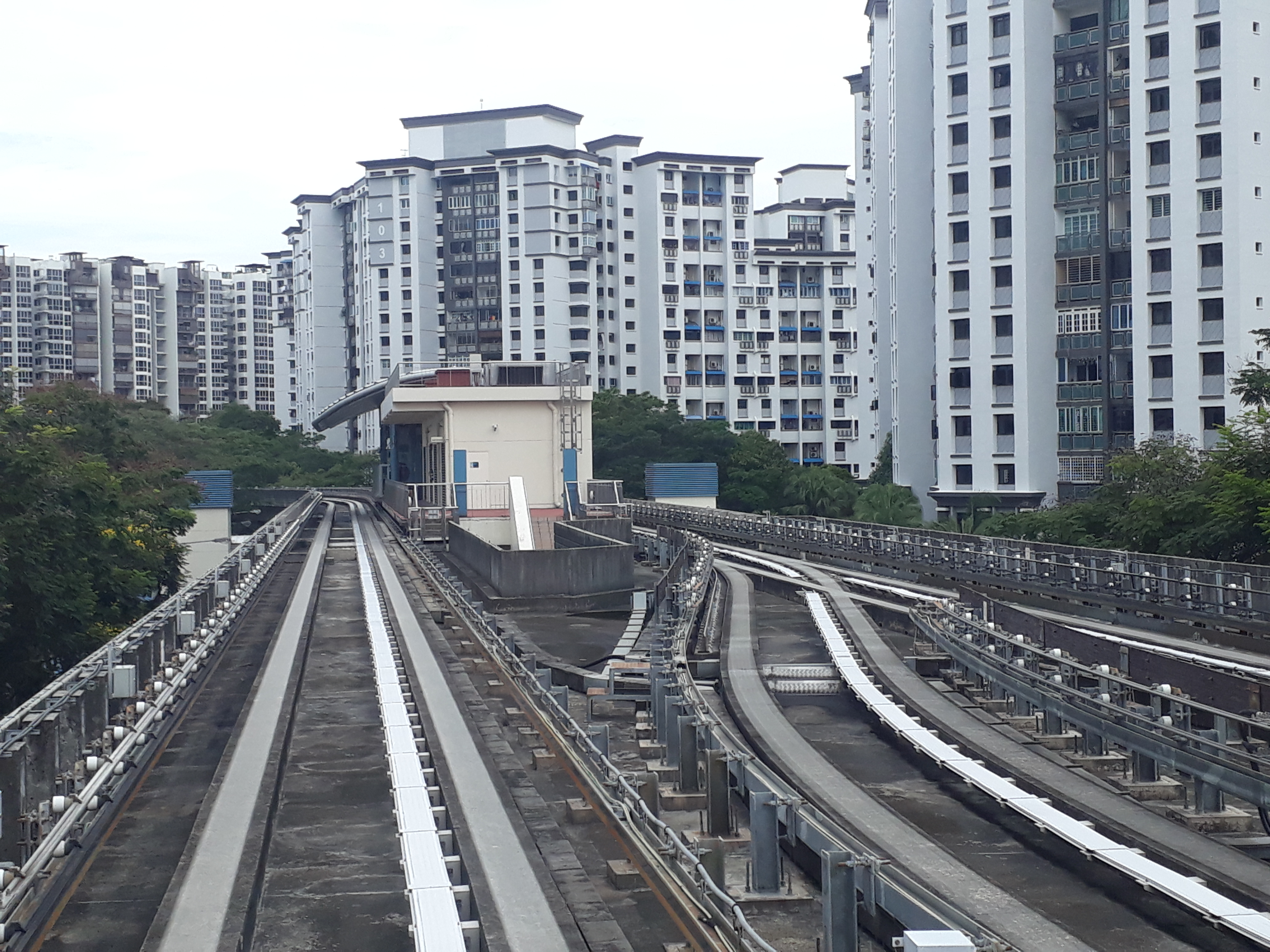 Kangkar station viewed from an LRT train